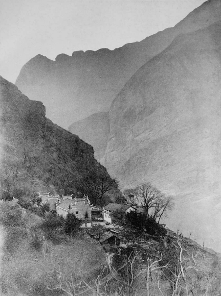 Country House on the Yangtse by Kazumasa Ogawa as it appears in Alicia Littles book